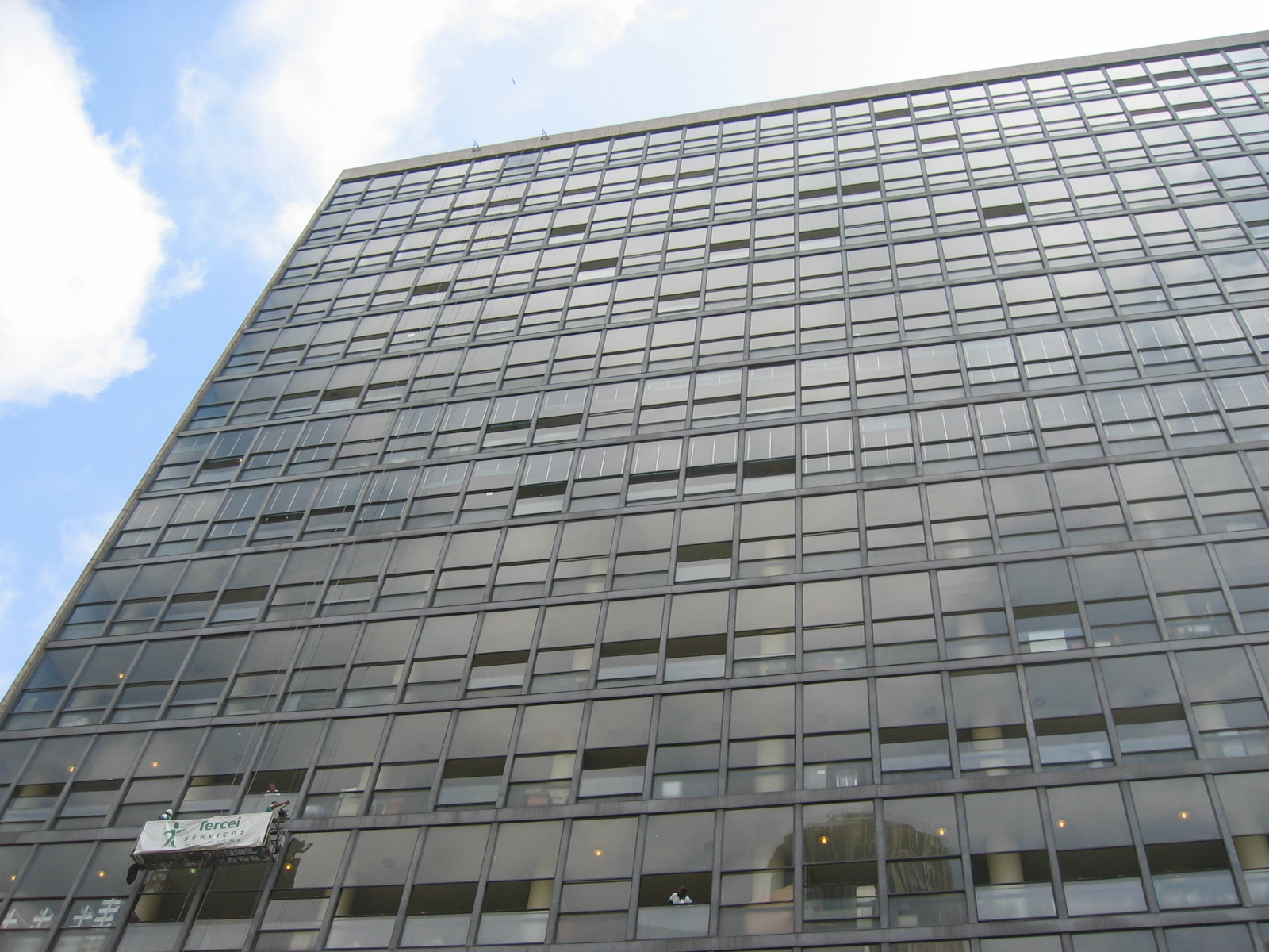 South façade of the Gustavo Capanema Palace, Rio de Janeiro, Brazil